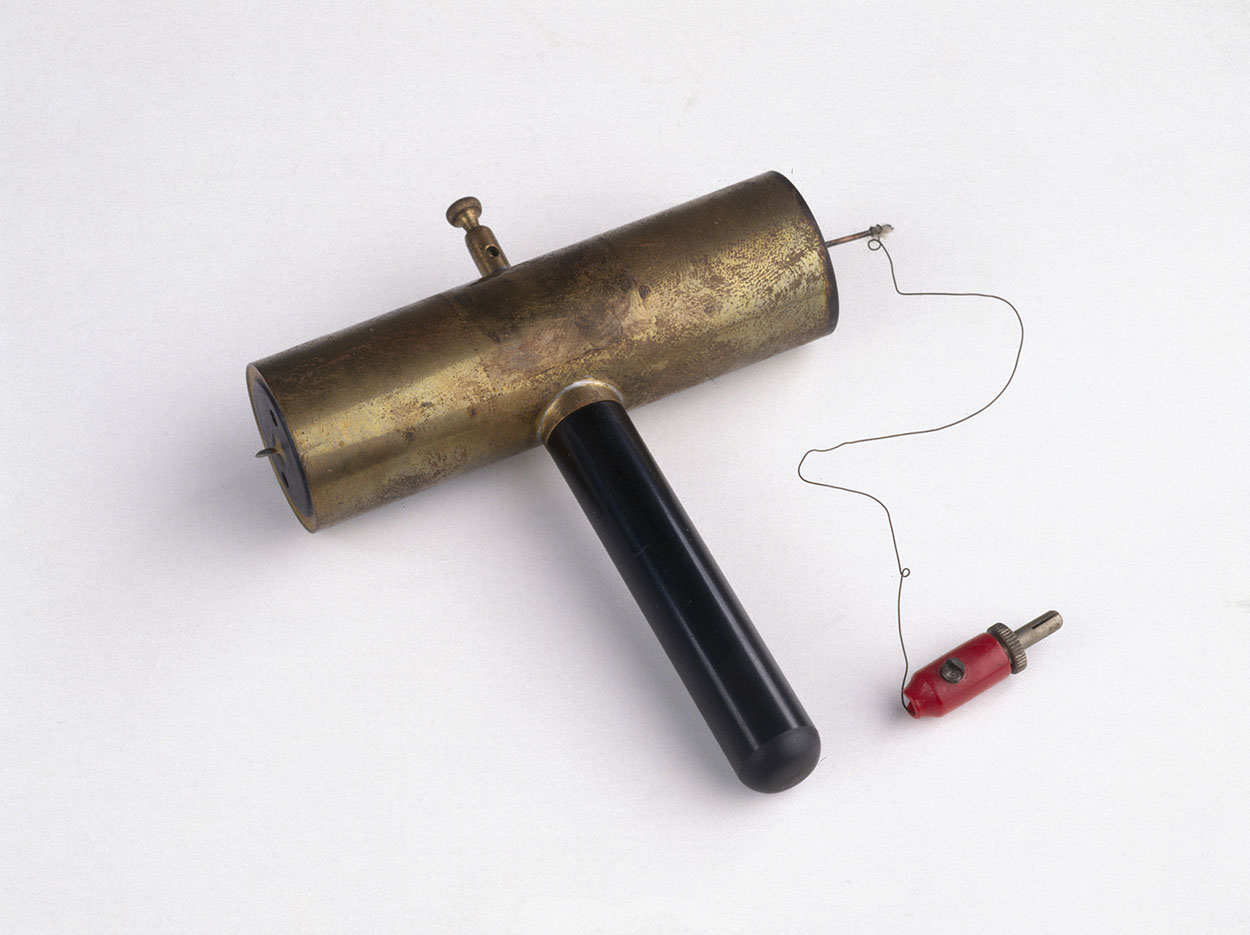 Hans Geiger (1882-1945) worked closely with Ernest Rutherford (1871-1935) to develop radiation measuring devices. In this early example a low pressure gas is held in a copper cylinder fitted with a handle. An electrical voltage is then applied between the copper casing and a thin wire running along its centre. The particle entering the cylinder causes a burst of electric current which is registered on a counter. This particular Geiger counter was used by James Chadwick, the discoverer of the neutron.